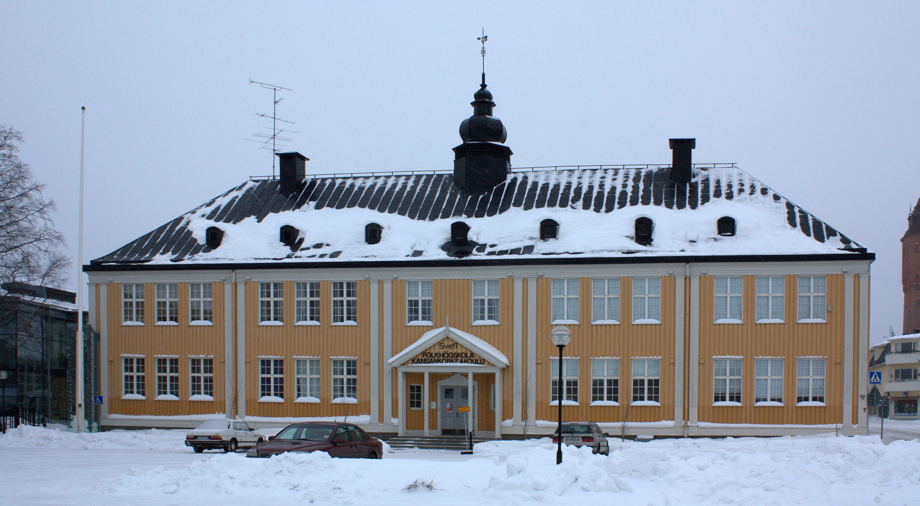 A people's university in Haparanda, Sweden.